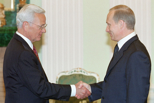 THE KREMLIN, MOSCOW. President Putin meeting with US Administration officials. US Treasury Secretary Paul O'Neil.